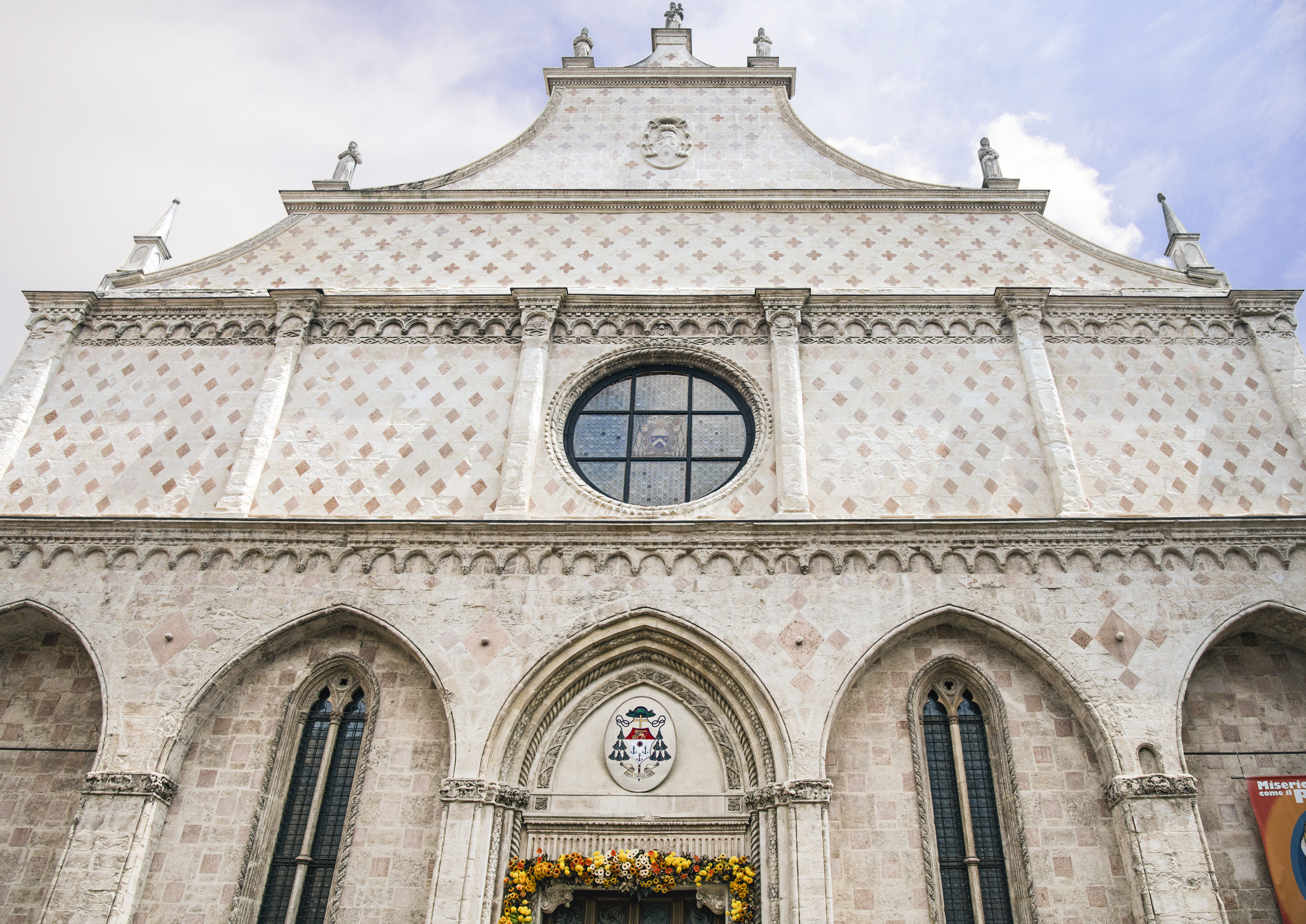 Vicenza Cathedral. The original facade is Gothic and attributed to Domenico da Venezia 16th century. It is divided into four sections: the lower one has five arches in transoms, the second with arches in the center of an oculus, the third is smooth, the fifth is decorated with five statues (and two pinnacles added in 1948)